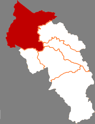 Location of Jingtai county in Baiyin city, China